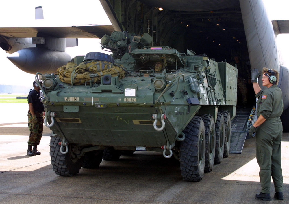 A mortar carrier Stryker vehicle makes its way off a California Air National Guard C-130 cargo plane at Esler Air Field. The C-130s, which can carry single Strykers, delivered 21 Strykers and 175 soldiers with Company B, 2nd Battalion, 3rd Infantry Regiment to the air field from Geronimo forward landing strip at Fort Polk's Joint Readiness Training Center.